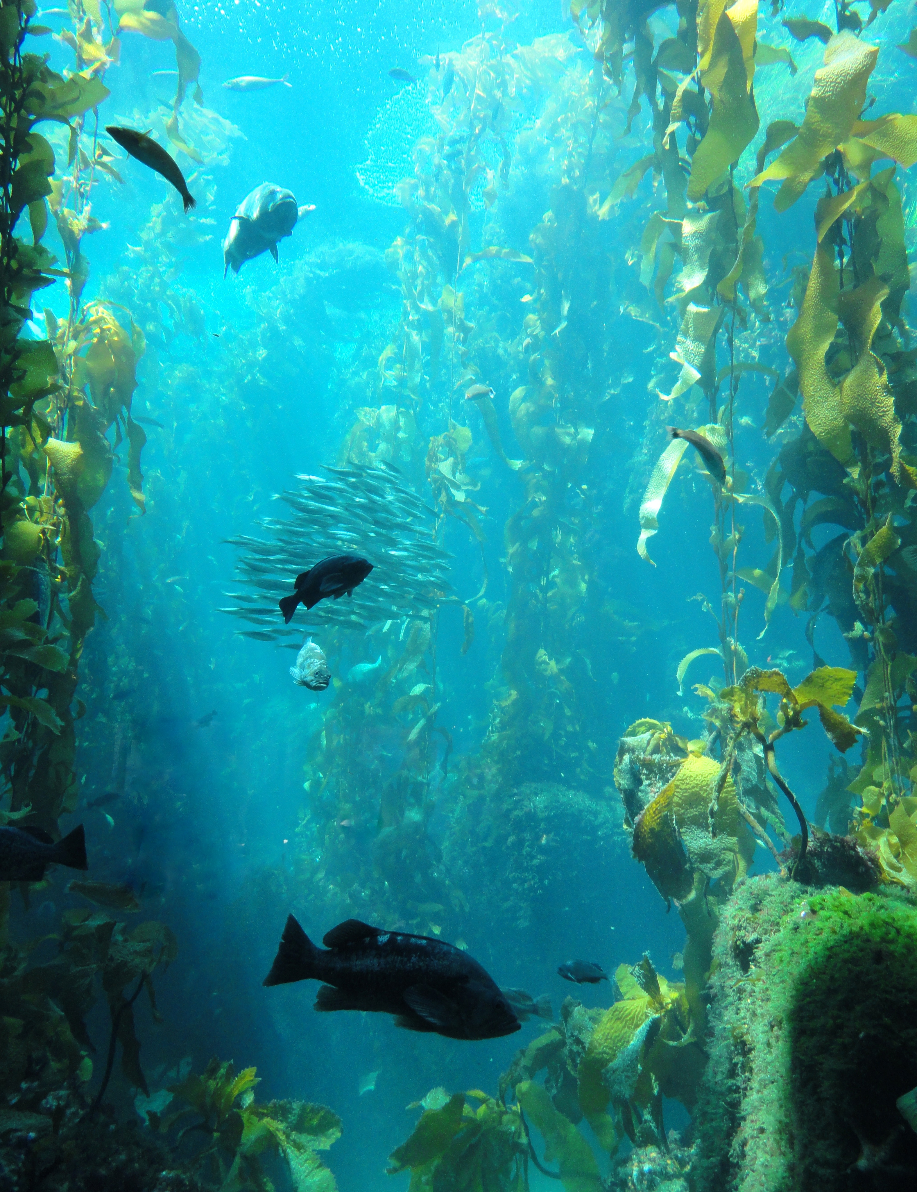 Kelp Forest tank, Monterey Bay Aquarium, Monterey County, California, USA.